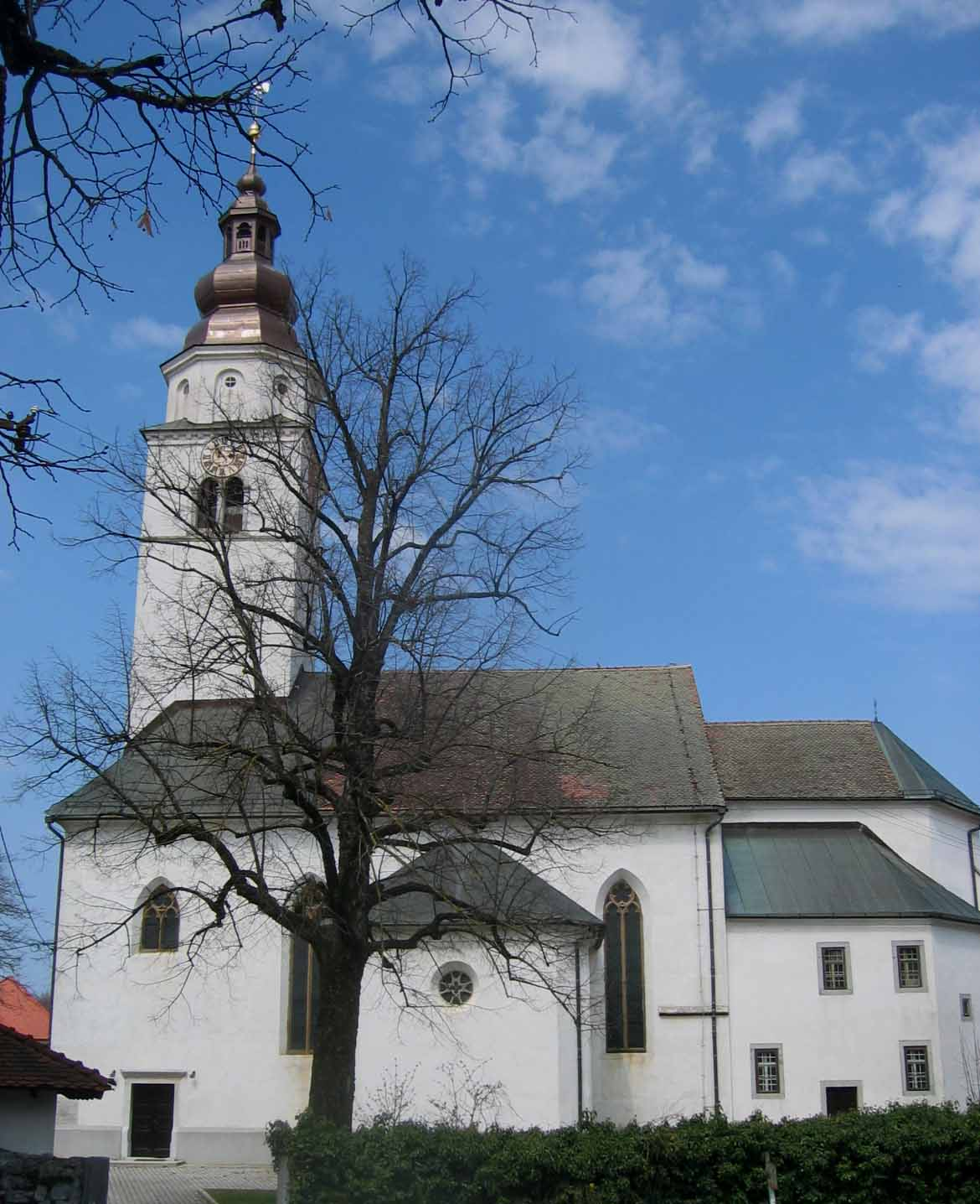 Cerknica, town in Slovenia -main church photo:Ziga 19:34, 7 April 2007 (UTC)